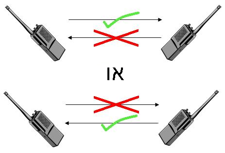 Half Duplex communication